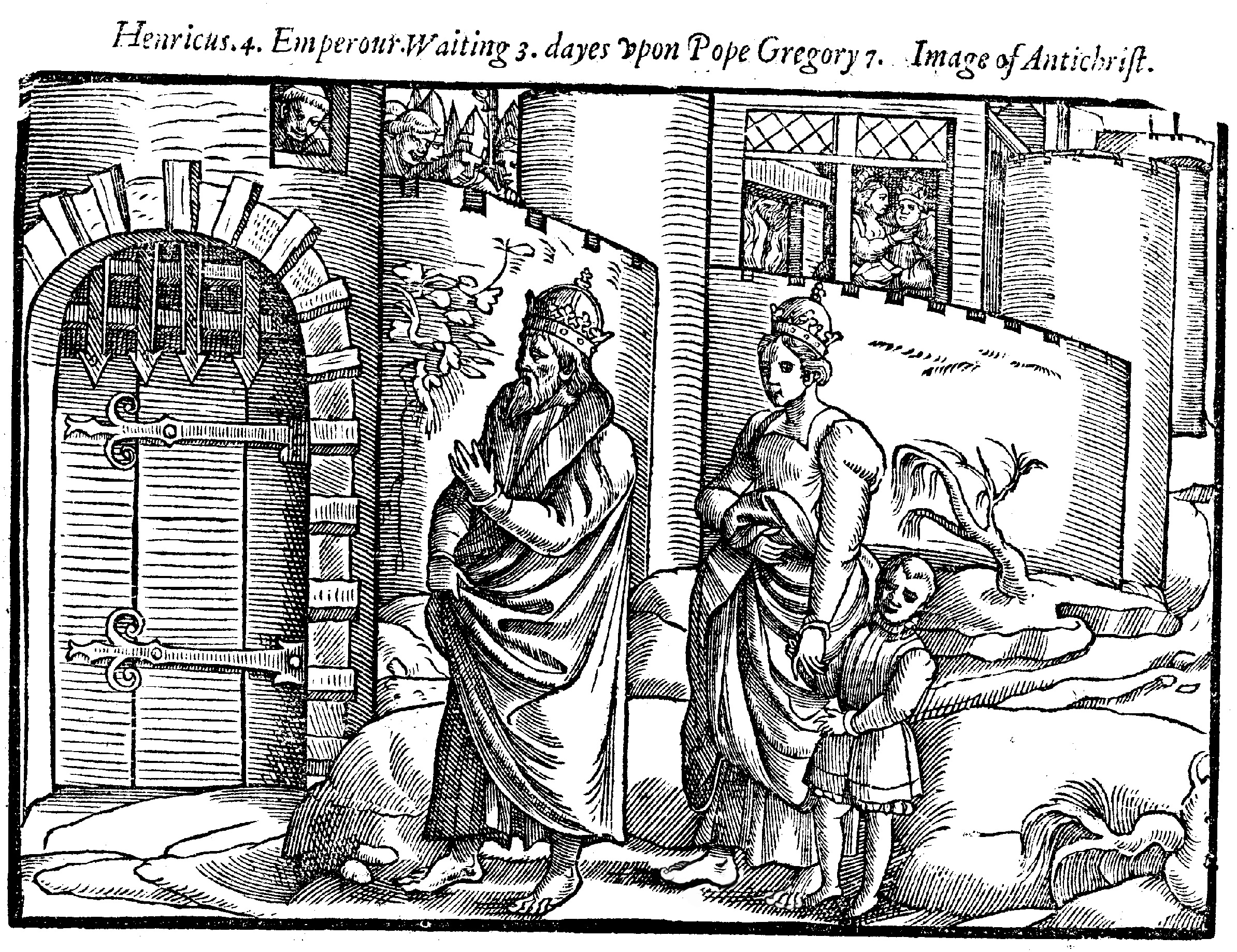 Henry IV the Holy Roman Emperor waiting for 3 days in Canossa with his wife and child.From:John Foxe